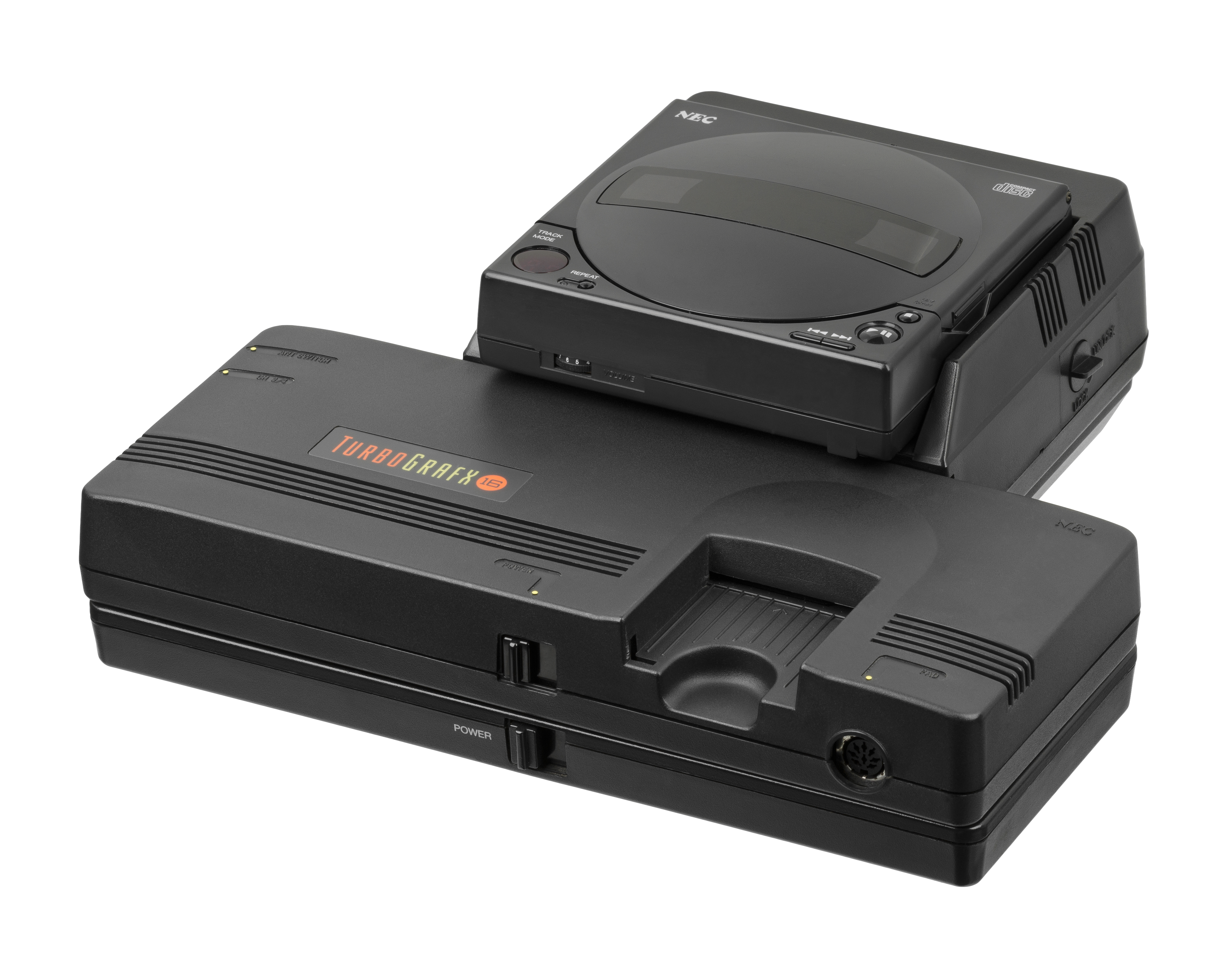 The North America TurboGrafx 16 with CD unit attached. The first console to have a CD-ROM attachement/capability, the unit came with a dock and a detachable CD-ROM drive.